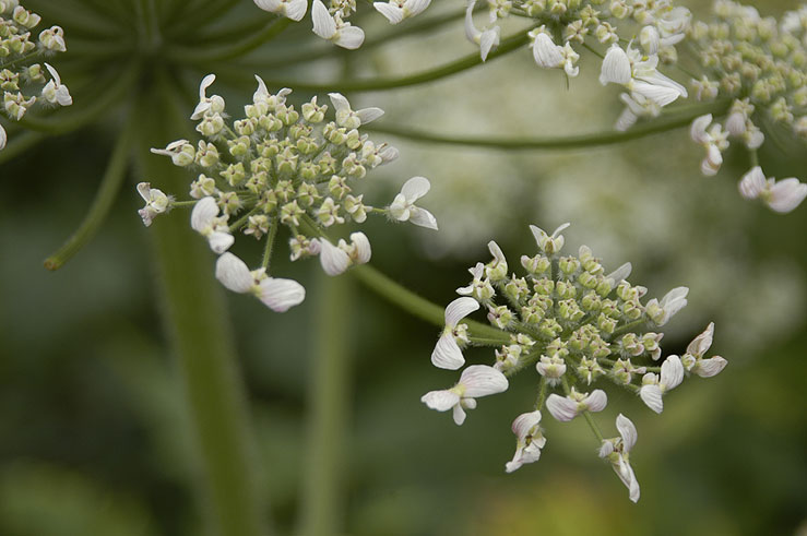 Tromsøpalme Heracleum persicum (syn. H. laciniatum, H. tromsoensis, etc). Nærbilde. Close-up. Photo: Krister Brandser.